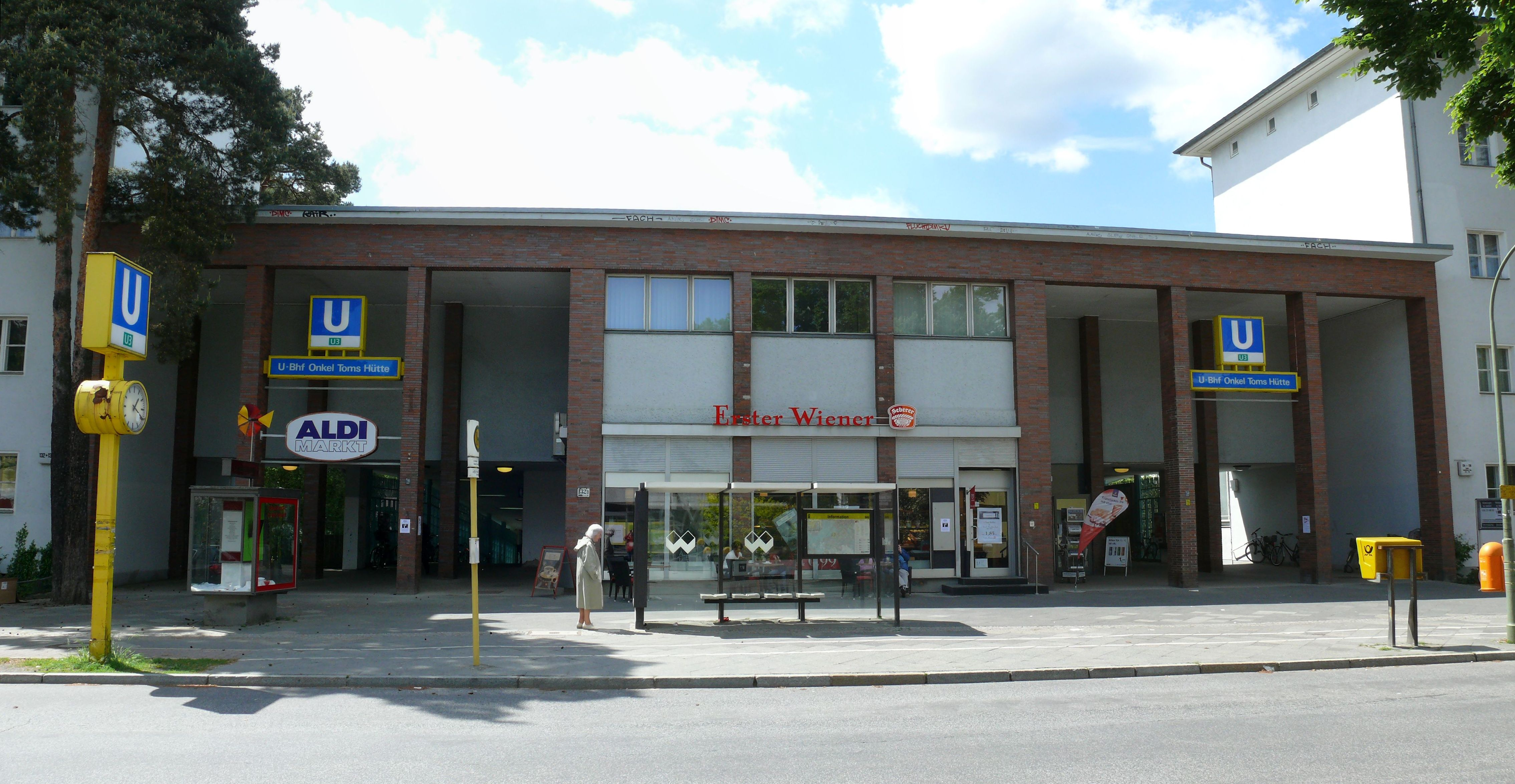 Zehlendorf U-Bahnhof Onkel Toms Hütte Ladenstraße